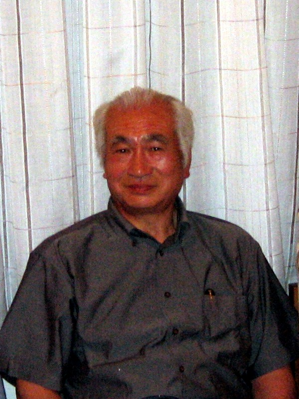 Picture of Isoyama Hiroshi (磯山 宏). 8th Dan Aikikai and Aikido Shihan. Student of O-sensei Ueshiba Morihei.